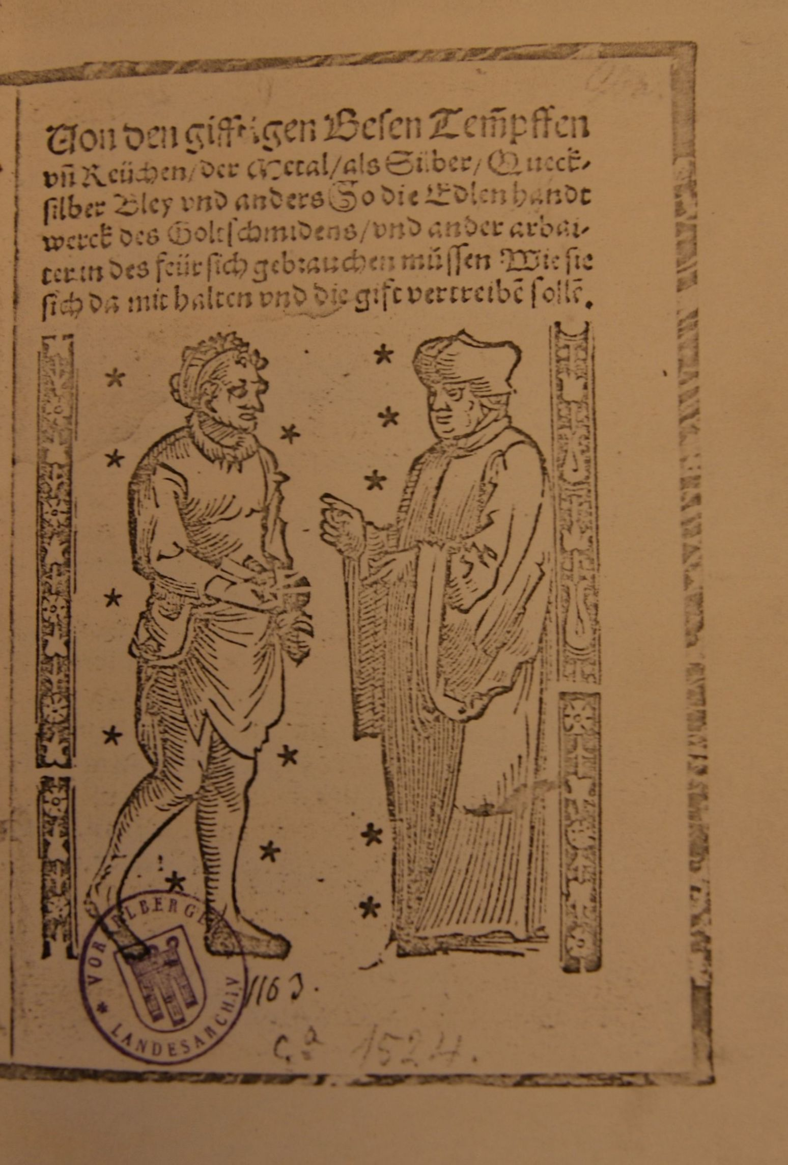 Detail of the first page of the work of Ulrich Ellenbog "Von den gifftigen Besen Temmpffen unn Reüchen, der Metal, als Silber, Quecksilber Bley und anders So die edlen handtwerck des Goltschmidens, und ander arbaiter in des feür sich gebrauchen müssen" 1525. Faksimilie edition in the Vorarlberg State library photographed, Sig. VA Ellen 1525/1.